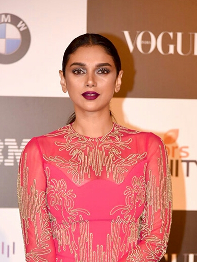 Aditi Rao Hydari at Vogue Women Awards 2017.